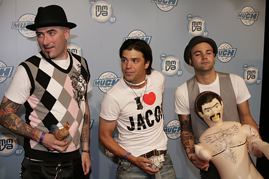 Tommy Mac, Chris Crippin and Dave Rosin of Hedley were attendees at the 2007 MuchMusic Video Awards, held the night of Sunday, June 17, 2007 in Toronto, Ontario, Canada.